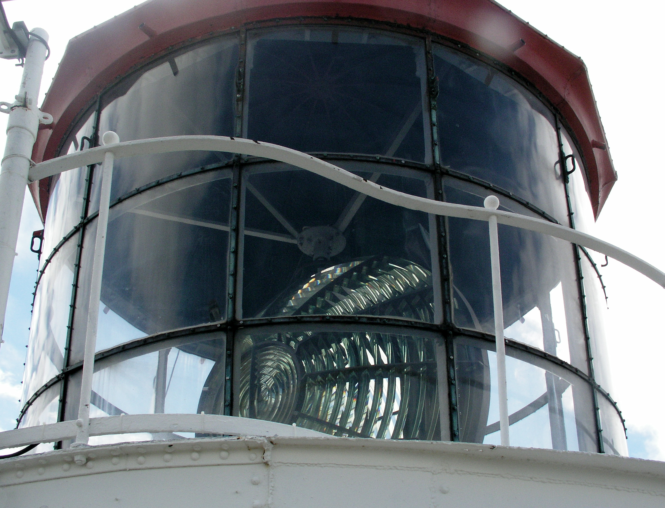 Långe Jan on Öland. The big Fresnel lens. The photo was taken the 1st of August 2005 by Håkan Svensson (Xauxa).